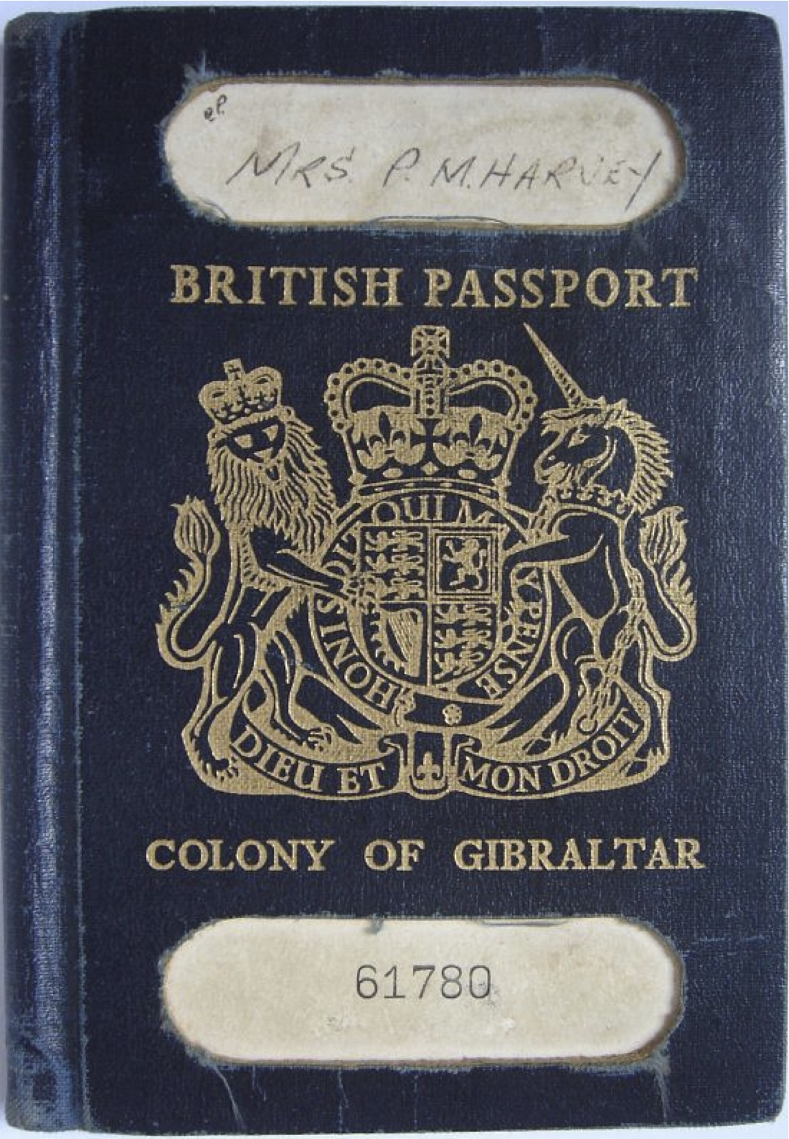 Passport of the Colony of Gibraltar